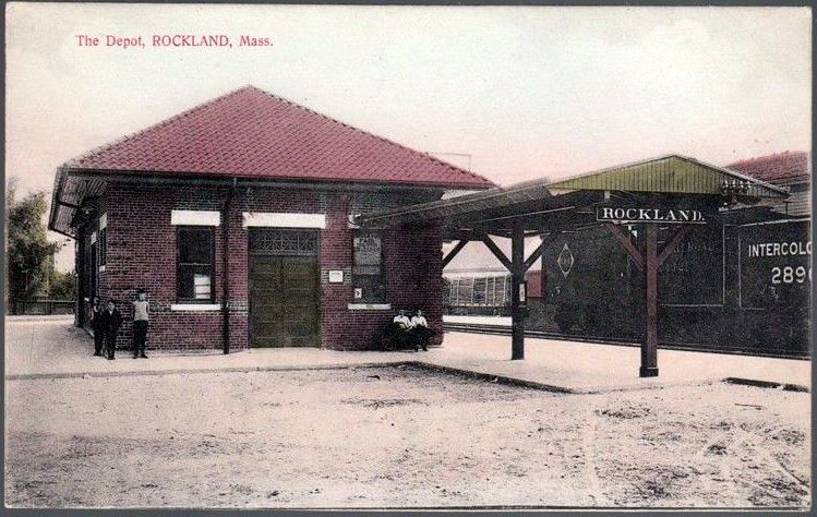 Early divided back postcard of Rockland station